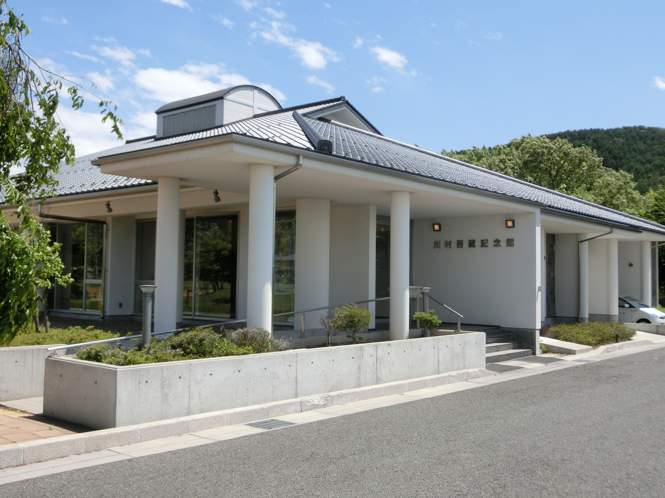 Memorial Museum of Kawamura Gozo